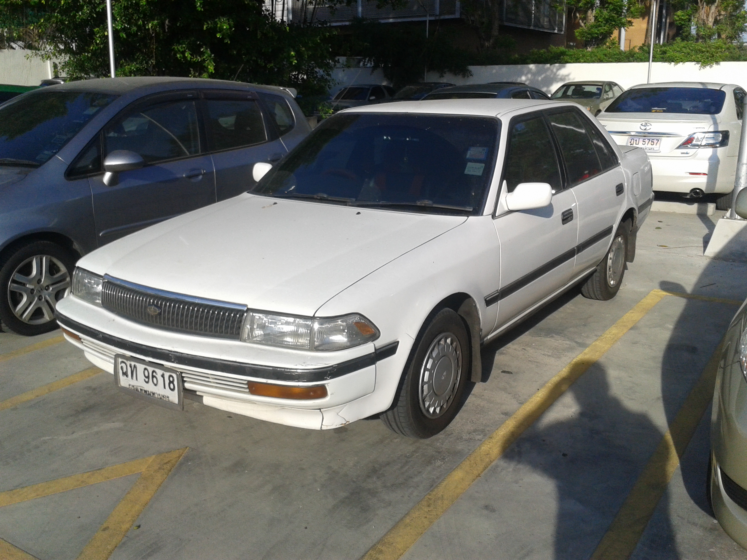 1990-1992 Toyota Corona (AT170, Minorchange) 1.6 GL in Bangna Bangkok Thailand (20-03-2017